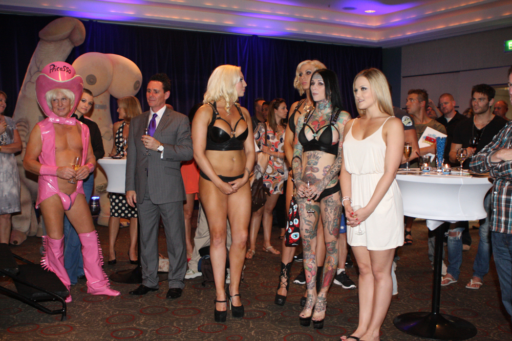 Alexis Texas & Michelle McGee at Sexpo Launch in Sydney, Australia; Media Friendly Adult Entertainment.